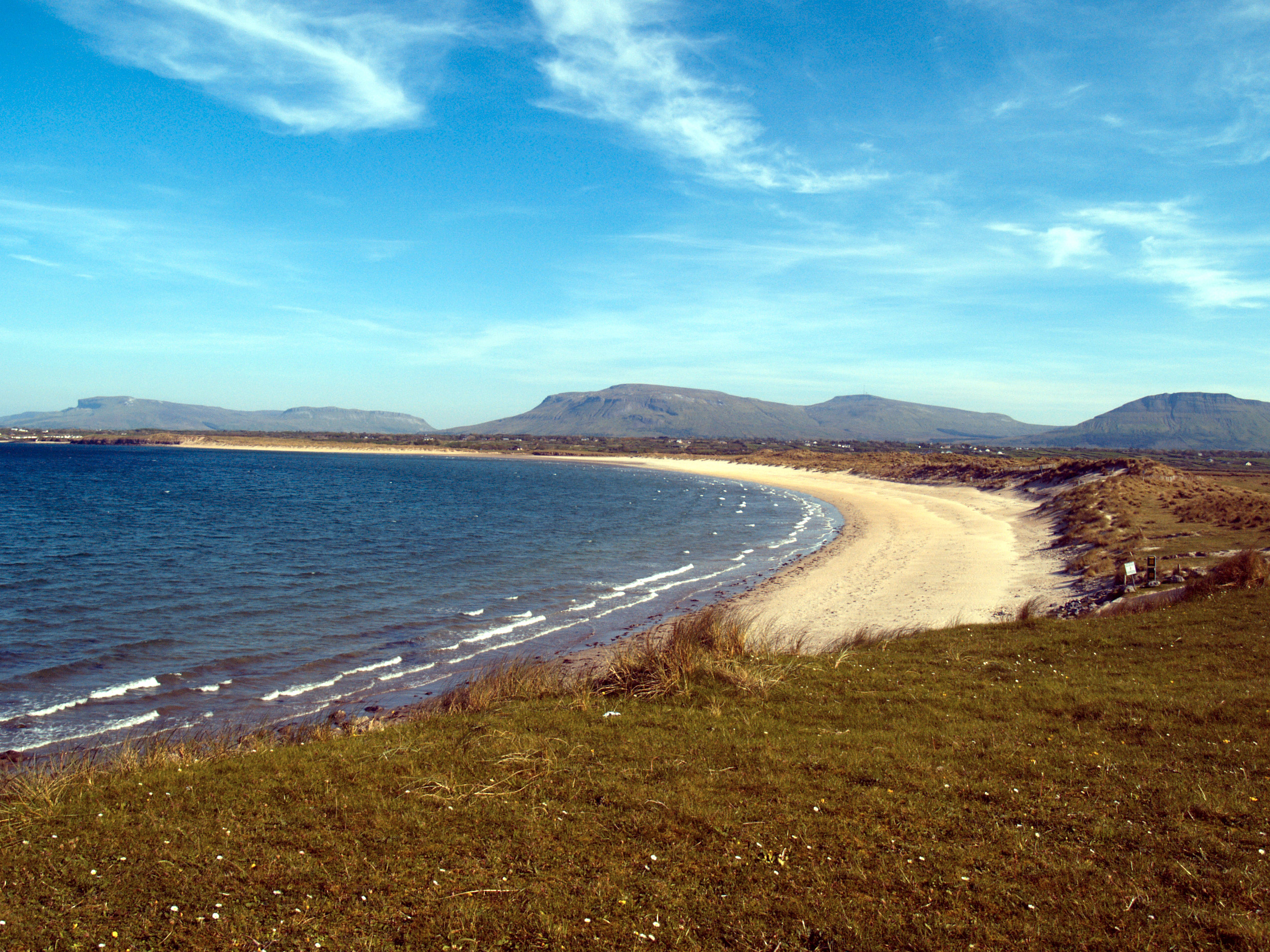 Mullaghmore Beach, Co. Sligo